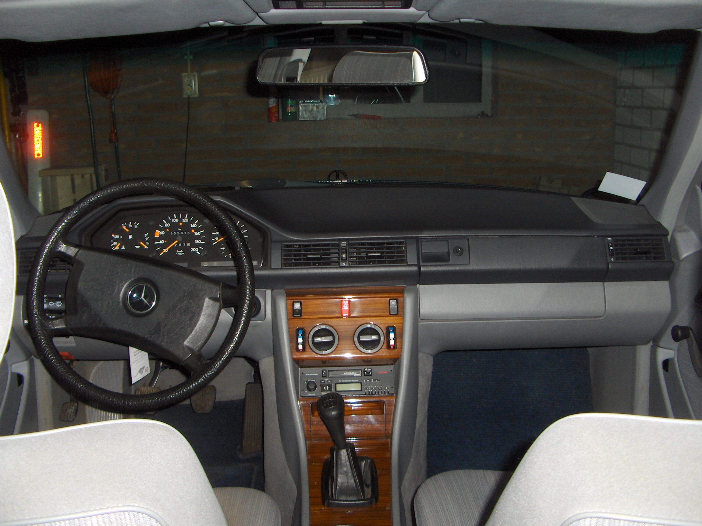 The dashboard of a 1984-1989 Mercedes-Benz W124